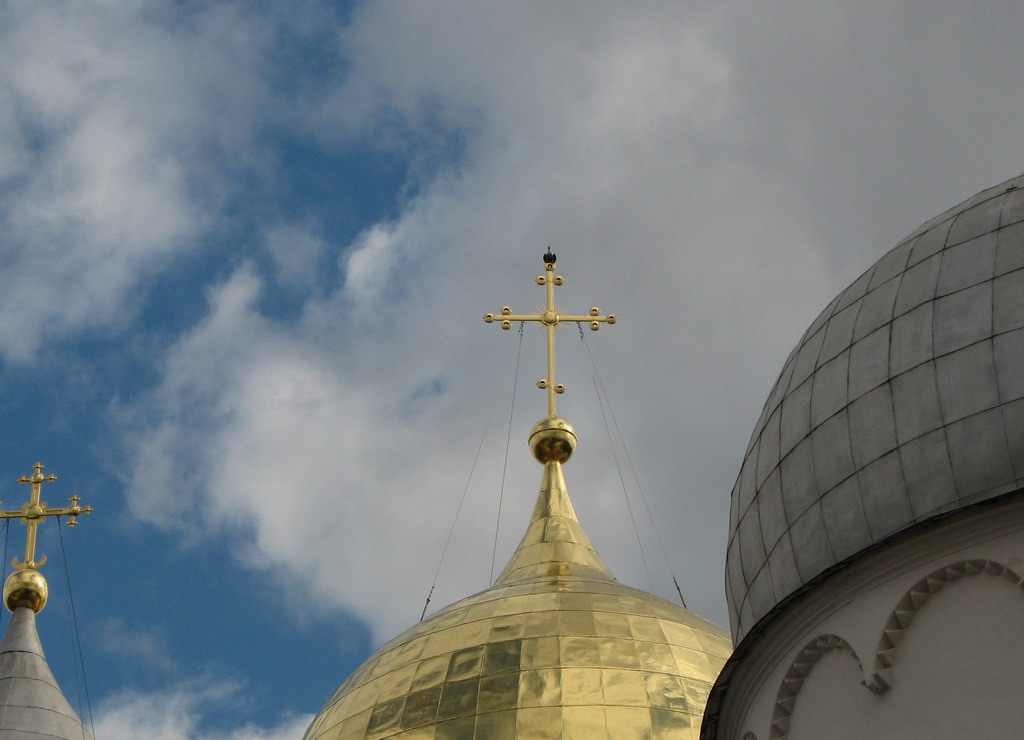 Peugeon on Sophia Cathedral in Novgorod, Russia